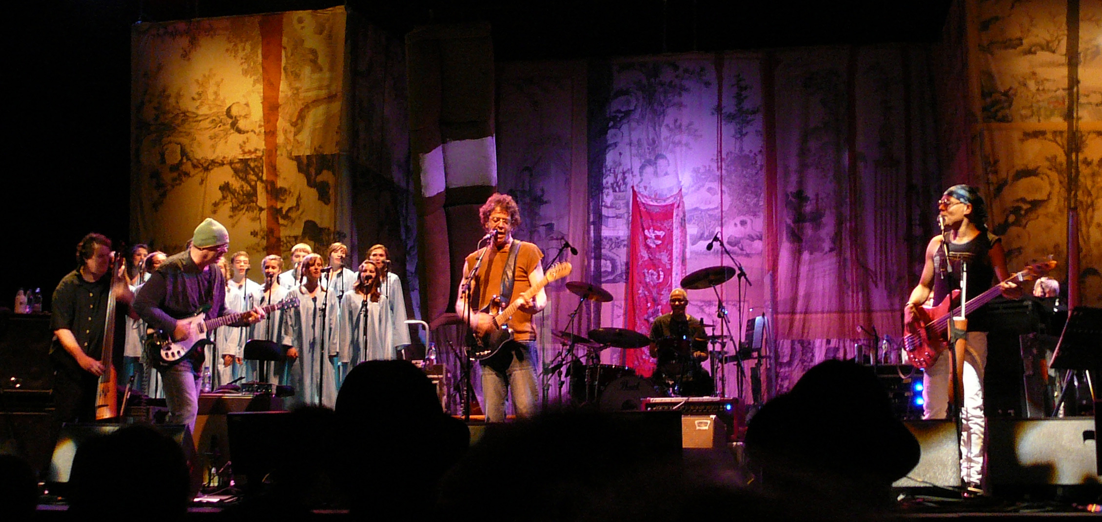 Lou Reed performing Berlin at the Globe Annex in Stockholm July 9 2008